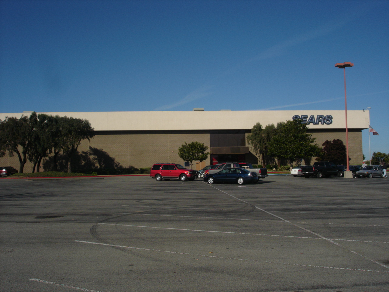 My Friend send me this Assumed GFDL, as the uploader claims they took it. Removed from the following pages: Northridge Mall --OrphanBot 13:55, 30 January 2006 (UTC)